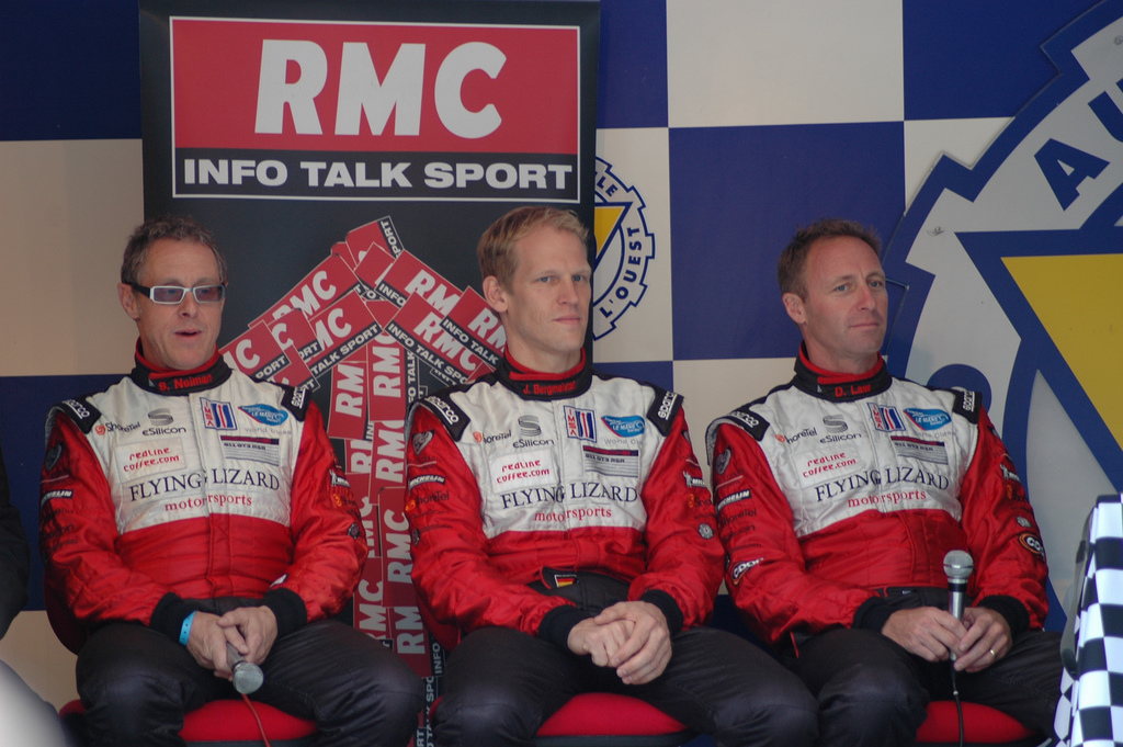 Jorg Bergmeister, Darren Law, and Seth Neiman of Flying Lizard Motorsports at the 2009 24 Hours of Le Mans.